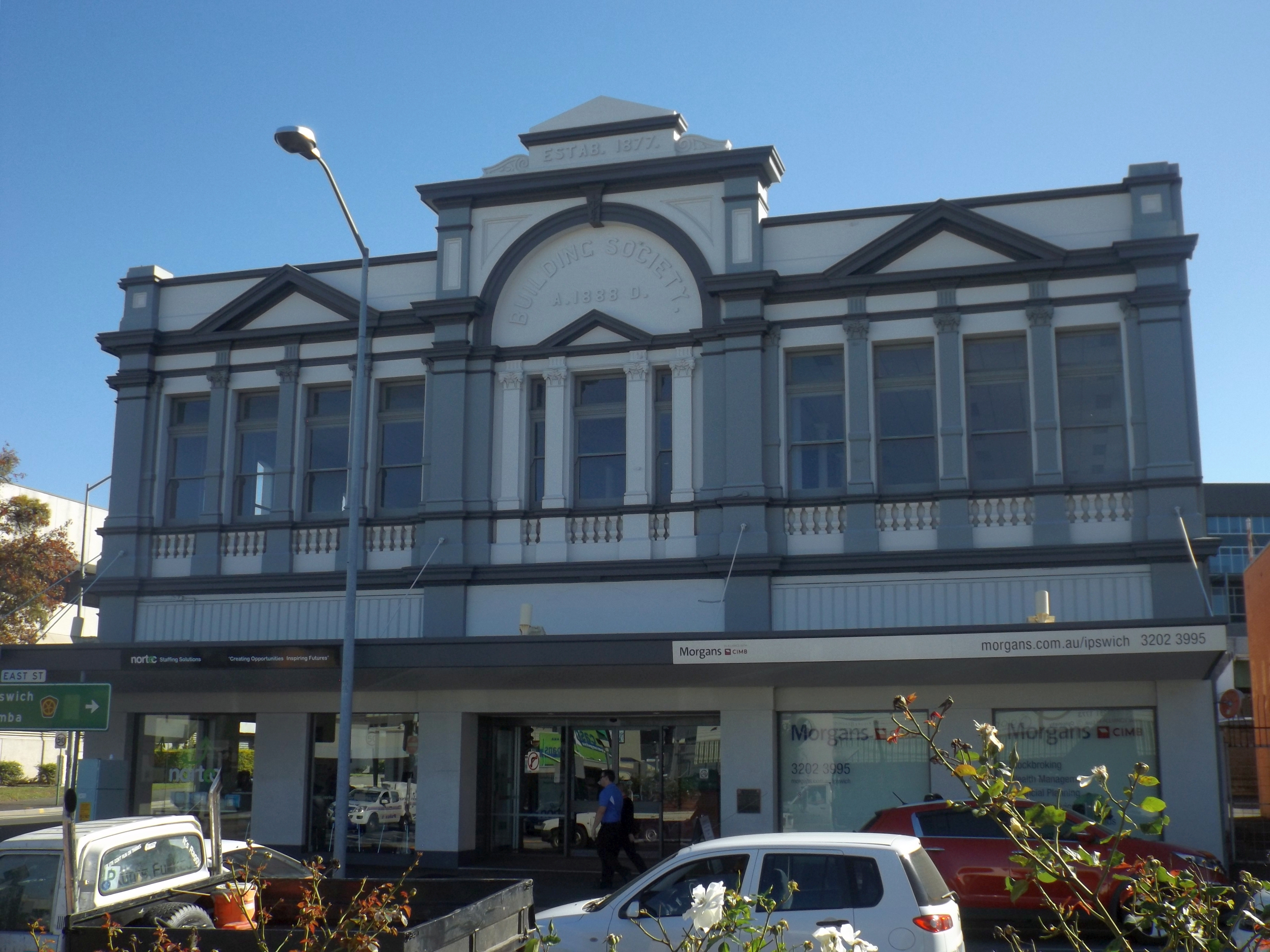 Photo of Ipswich & West Moreton Building Society at Ipswich, Queensland, Australia.